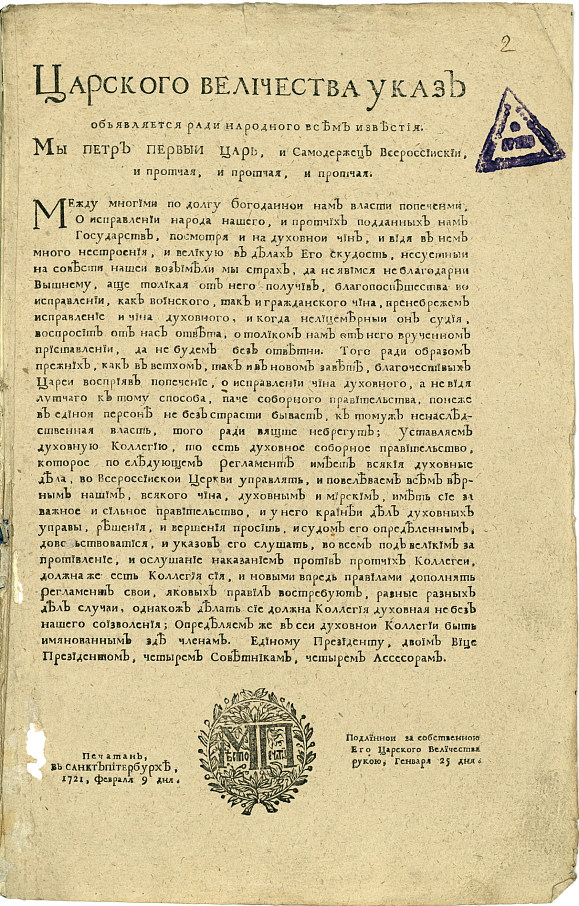 Decree on the establishment of the Theological Collegium (Holy Synod)